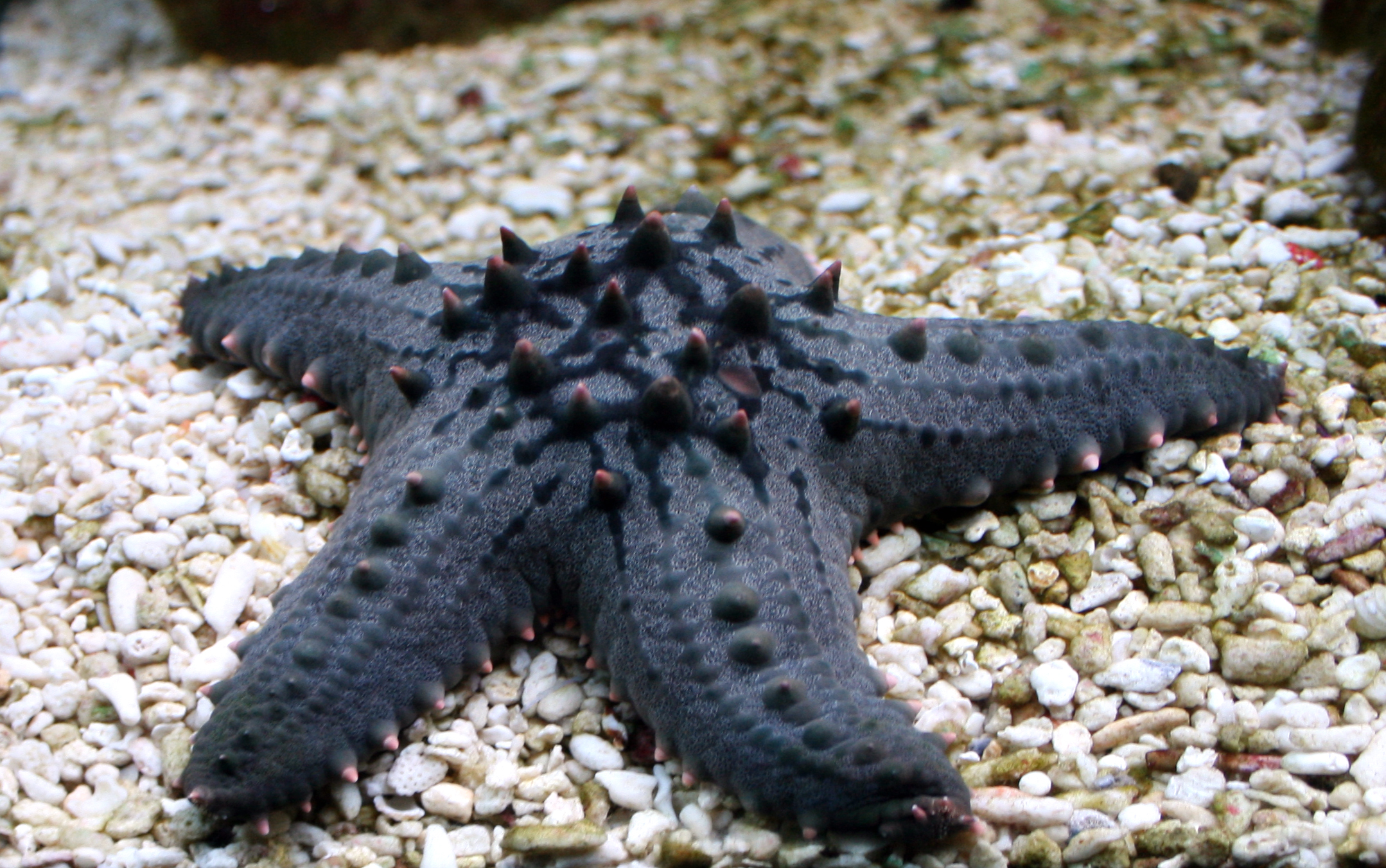 Sea star Pentaceraster sp. in Prague sea aquarium, Czech Republic